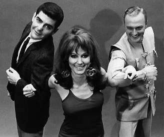 Publicity photo of Dick Benjamin, Paula Prentiss and Jack Cassidy on He & She.